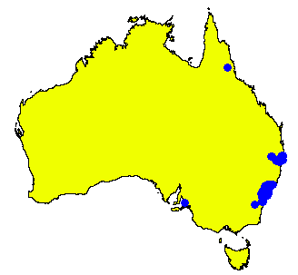 Angophora bakeri occurrence data downloaded from Australasian Virtual Herbarium using on 21 March 2019